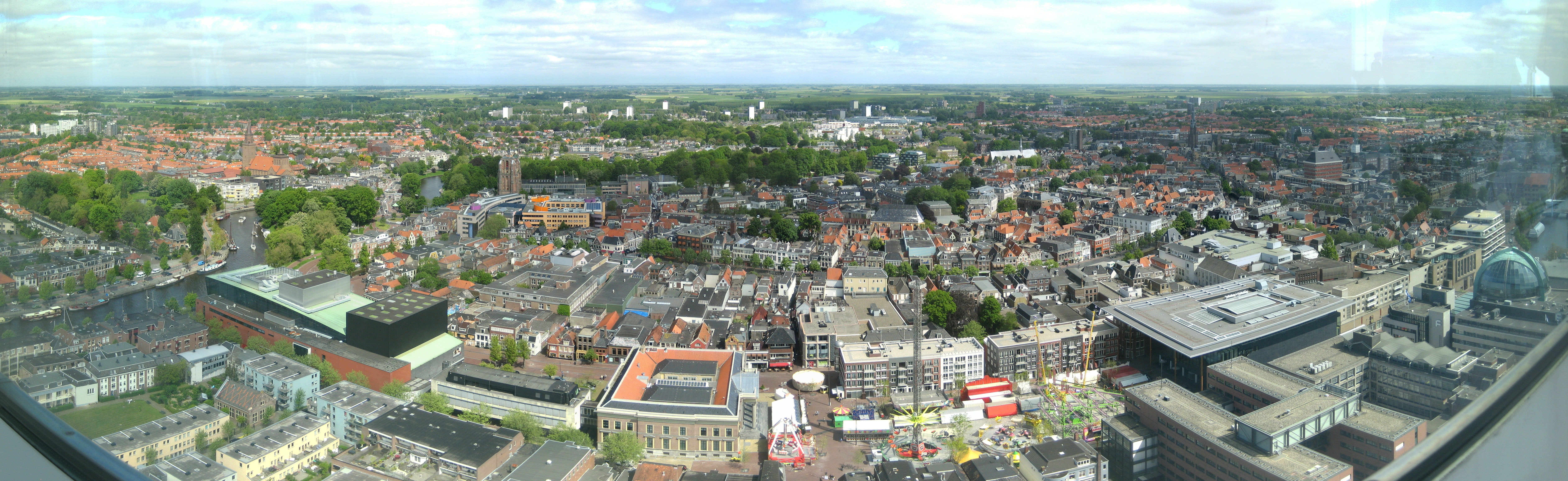 View of the inner city of Leeuwarden, the capital of the Dutch province of Fryslân, from the observation room on the 26th floor of the Achmea Tower.